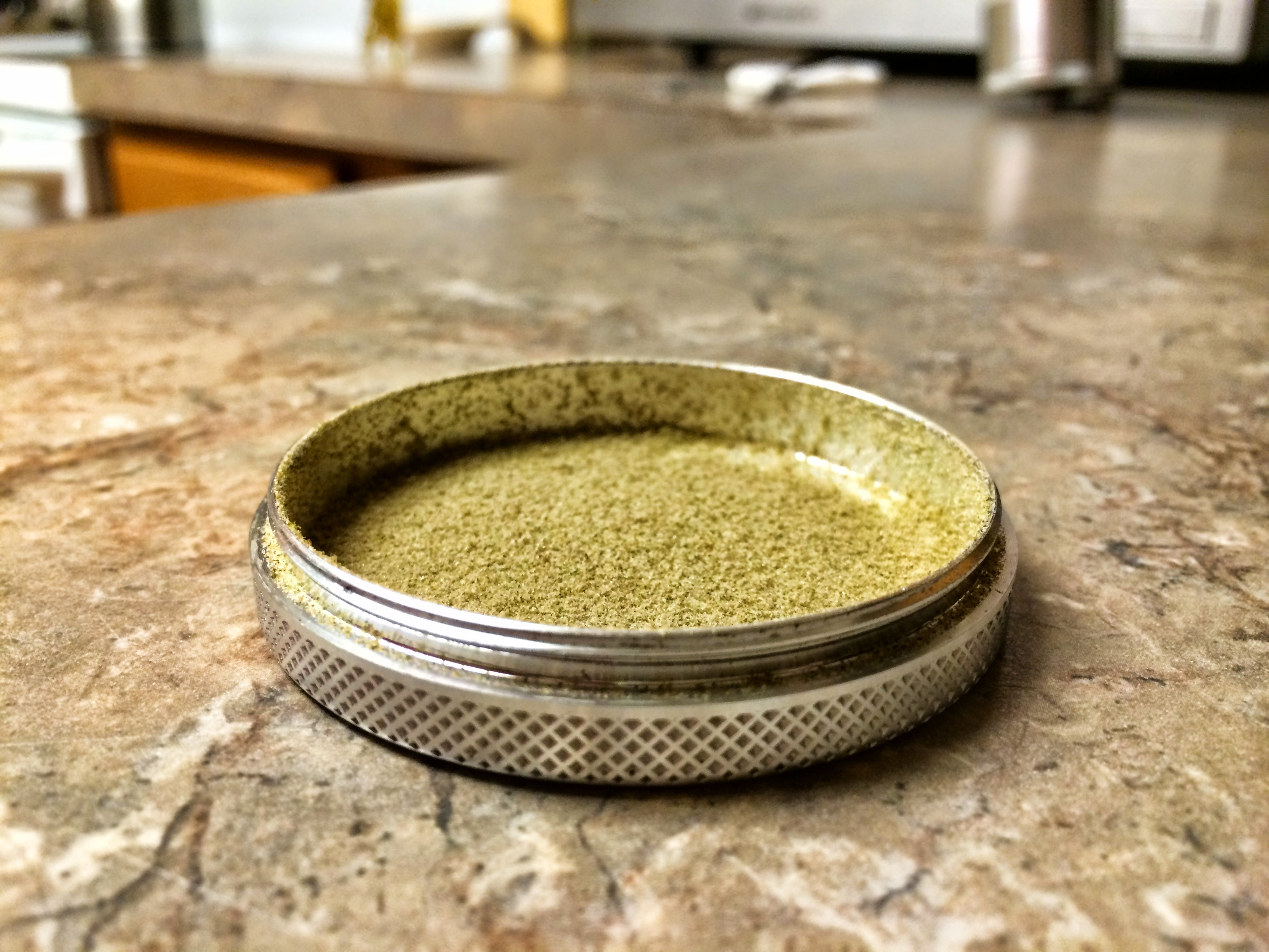 The bottom part of a grinder with a layer of kief accumulated.